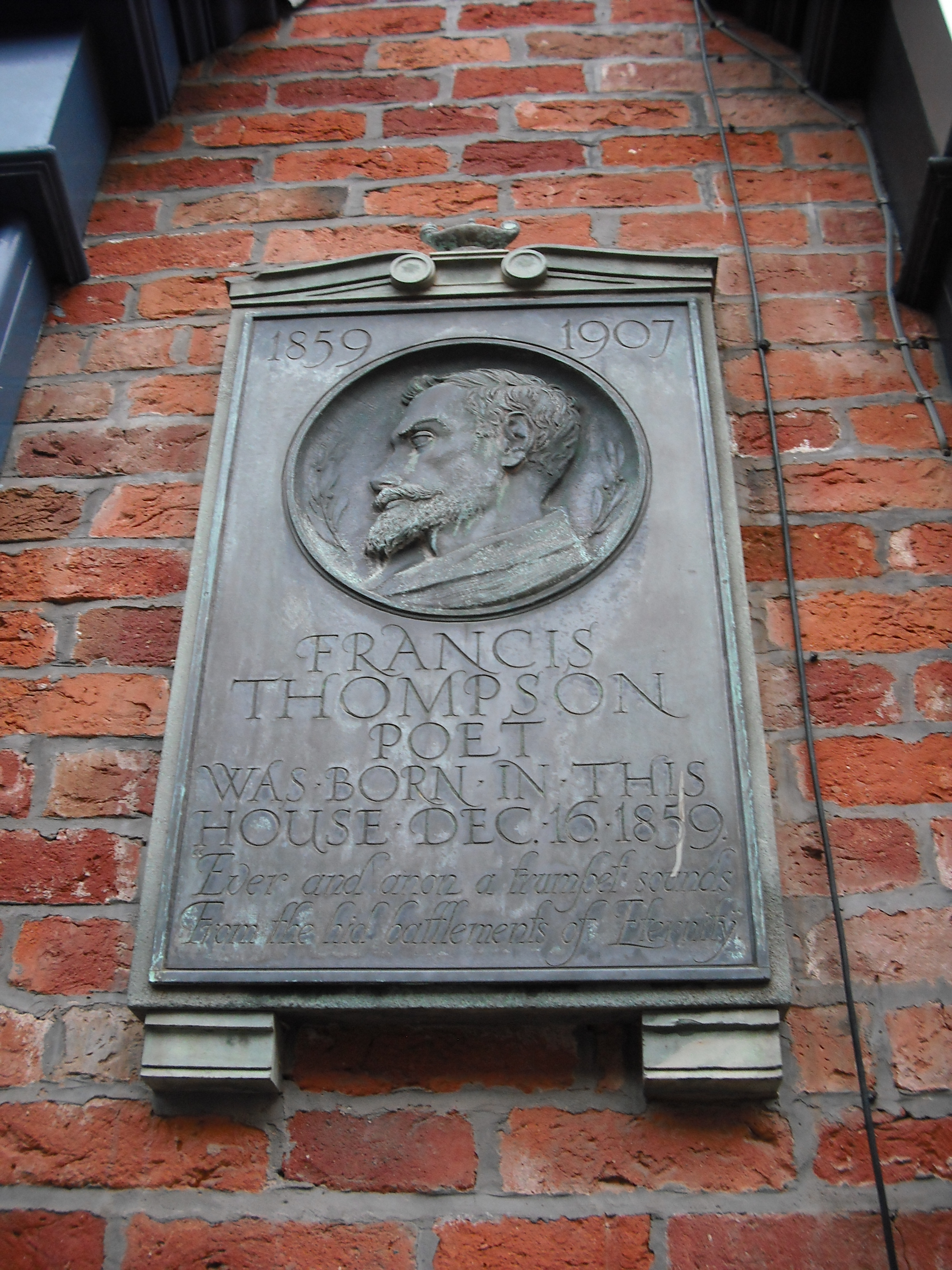 Memorial plaque to poet Francis Thompson (1859-1907), Winckley Street, Preston